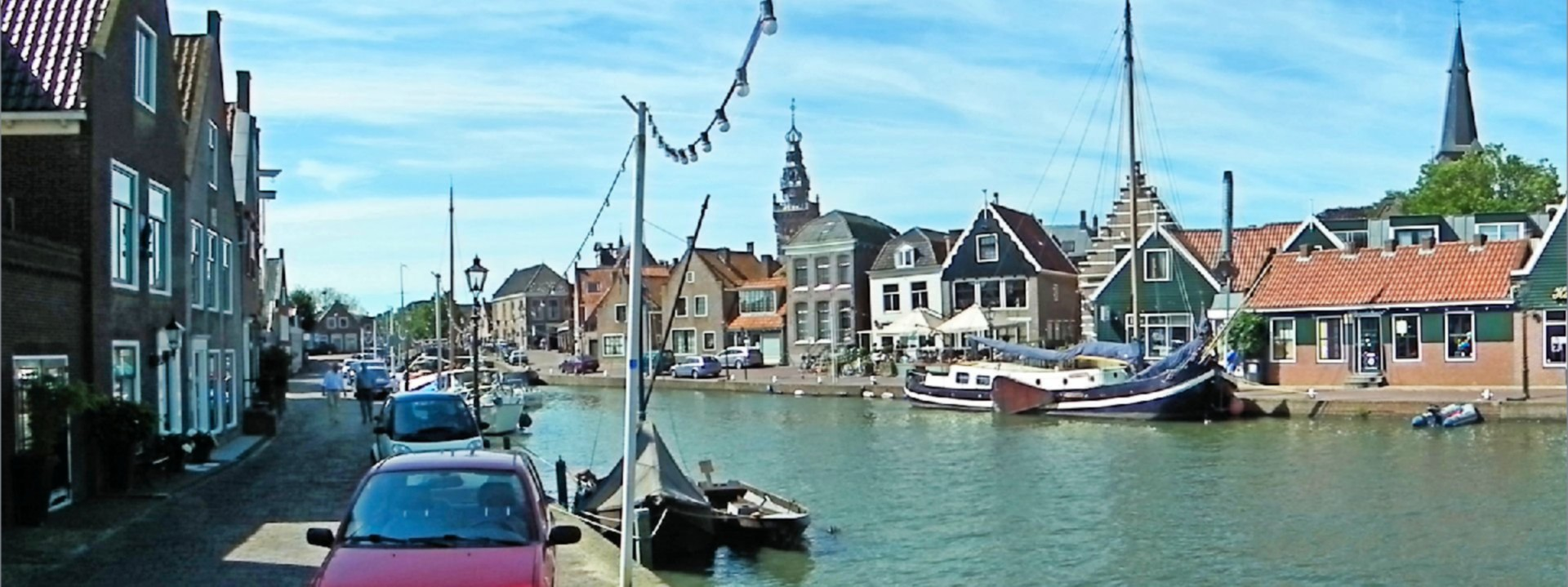 Monnickendam Harbour, The Netherlands